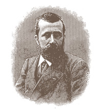 Johan Conrad Greive (1837-1891)